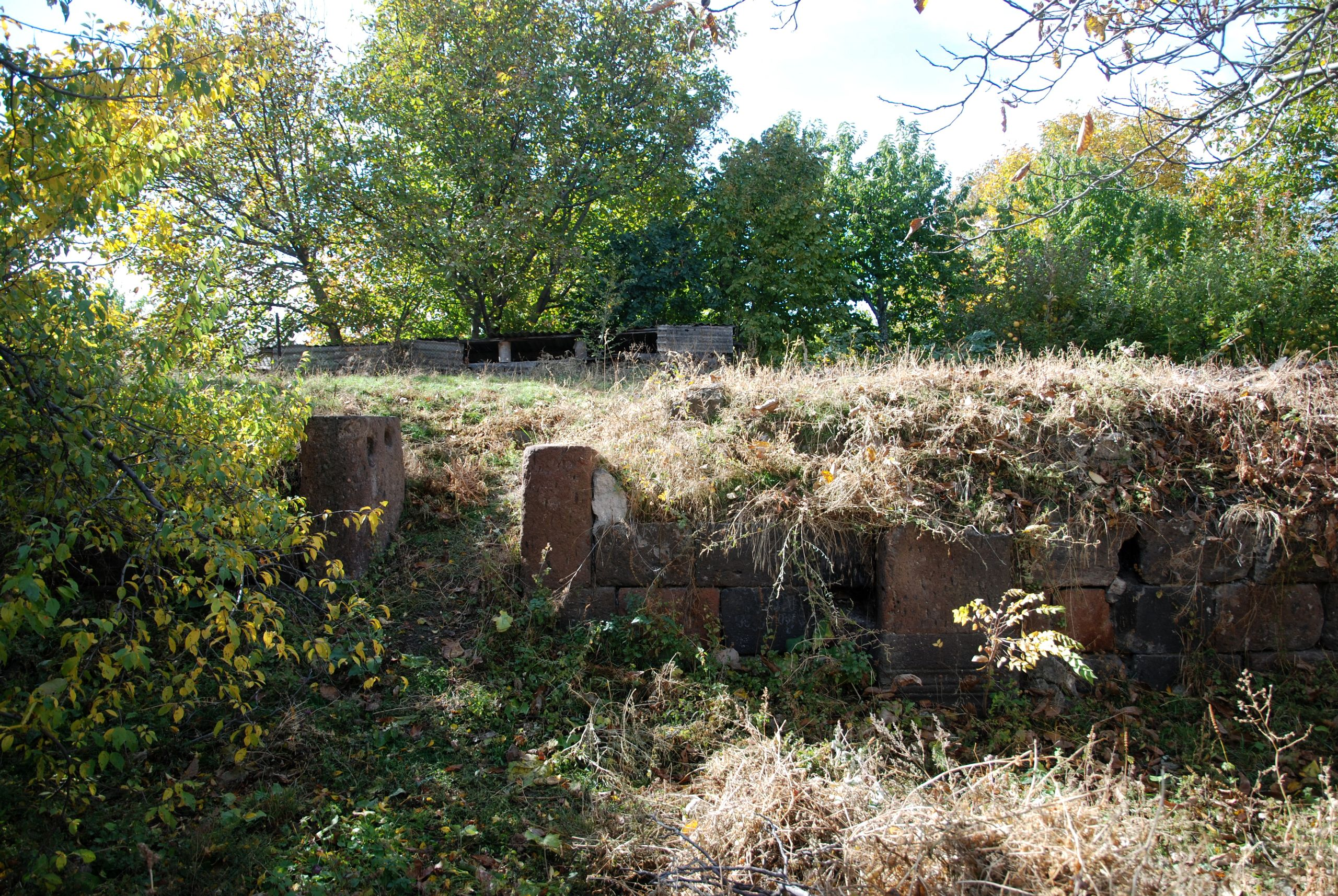 Yeghvard, small church